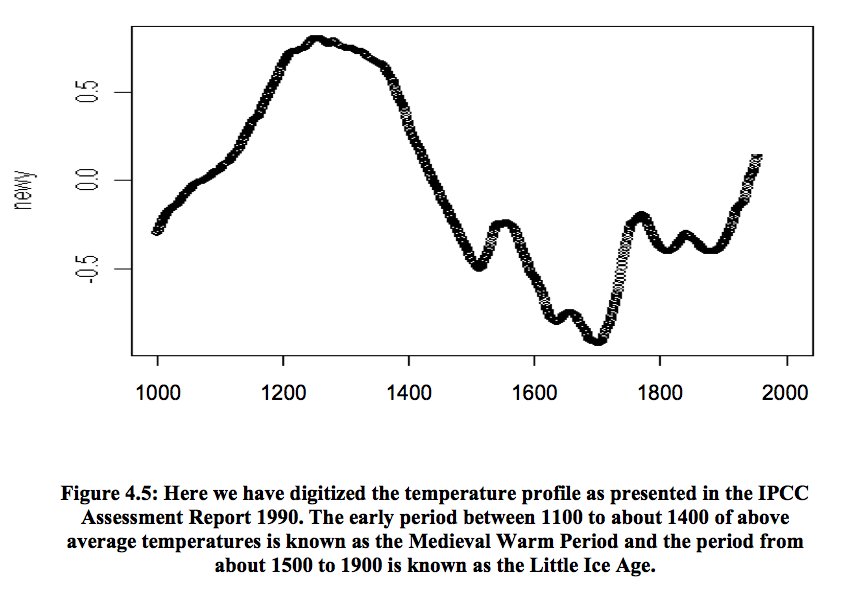 Figure 4.5 p. 34 of the Wegman Report, based on File:IPCC 1990 FAR chapter 7 fig 7.1(c).png, published by the United States House Committee on Science, Space and Technology.